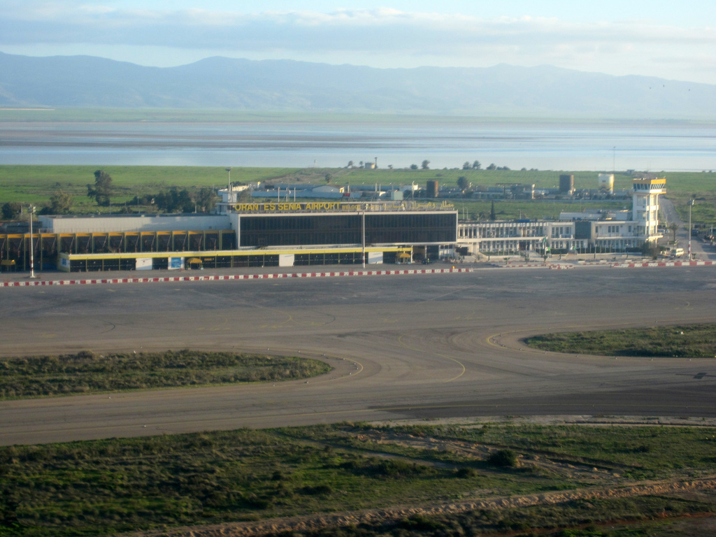 Oran Airport